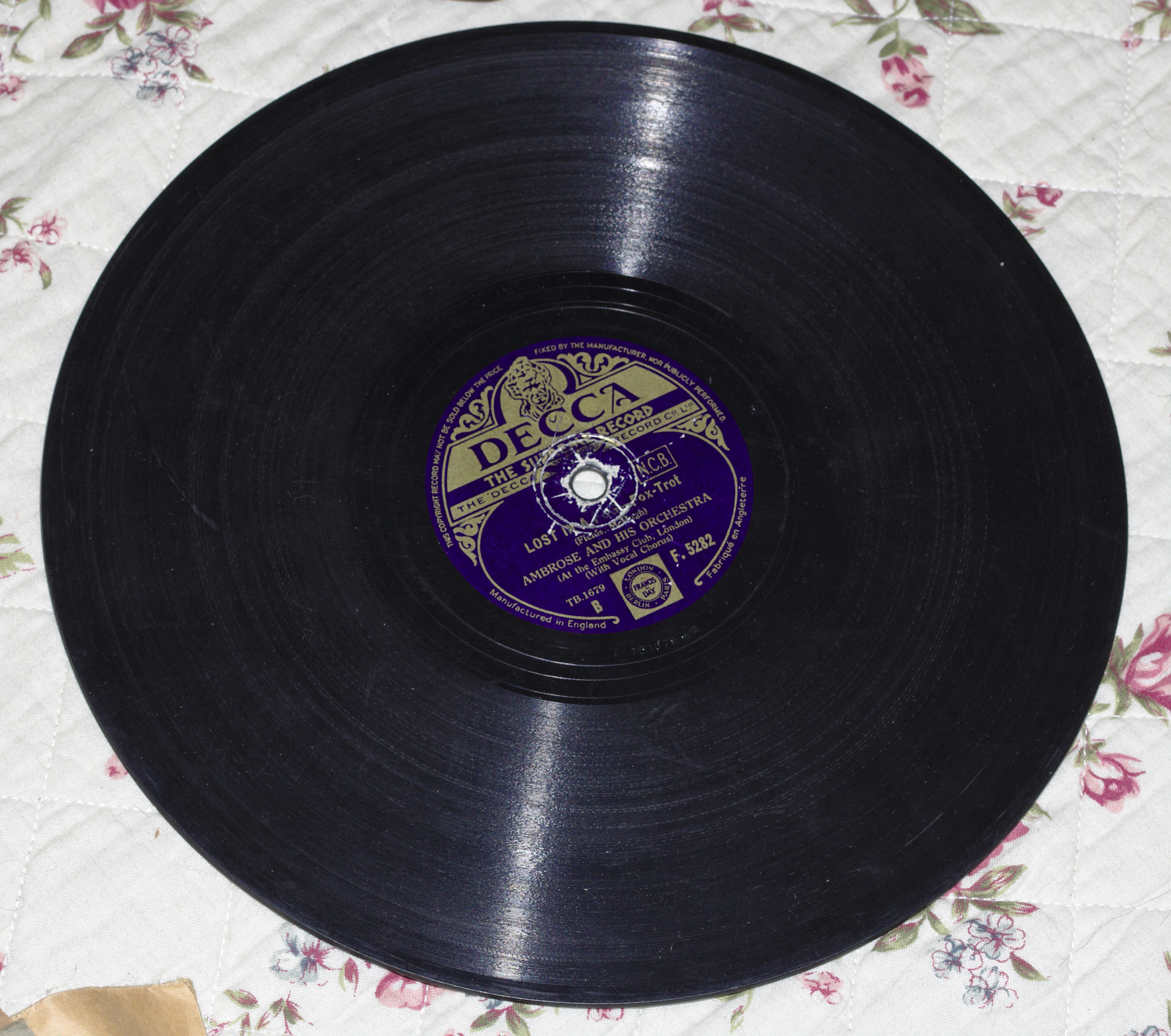 A gramophone record of Ambrose in 1934 at the Embassy Club. On the other side they play Stars fell on Alabama.